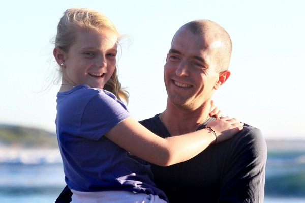 Jamie Allen, with daughter Carrie, Back Beach, Taranaki